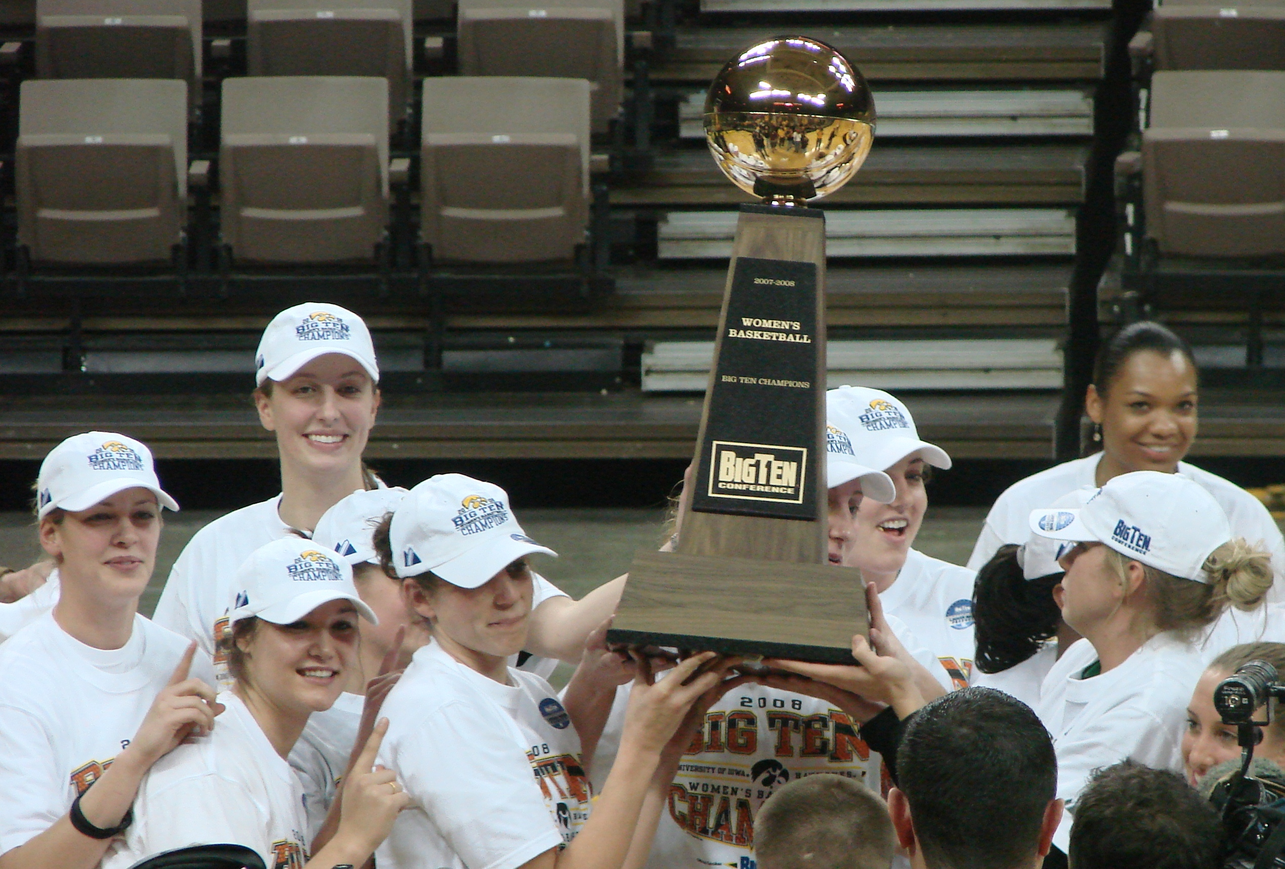 The Iowa Hawkeyes women's basketball team celebrates their 2008 regular season Big Ten Conference championship.